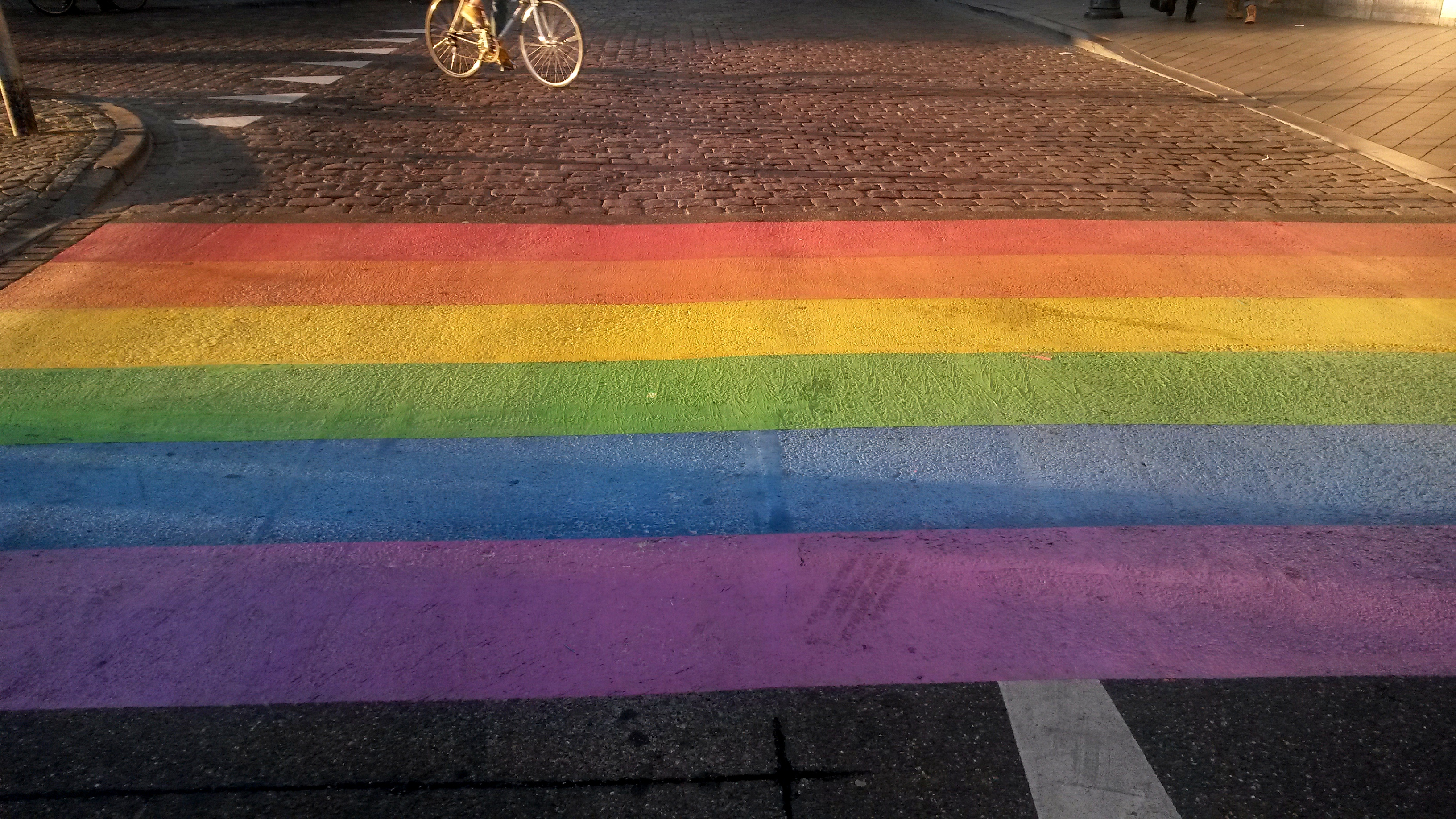 20150419 Maastricht; Vrijthof.